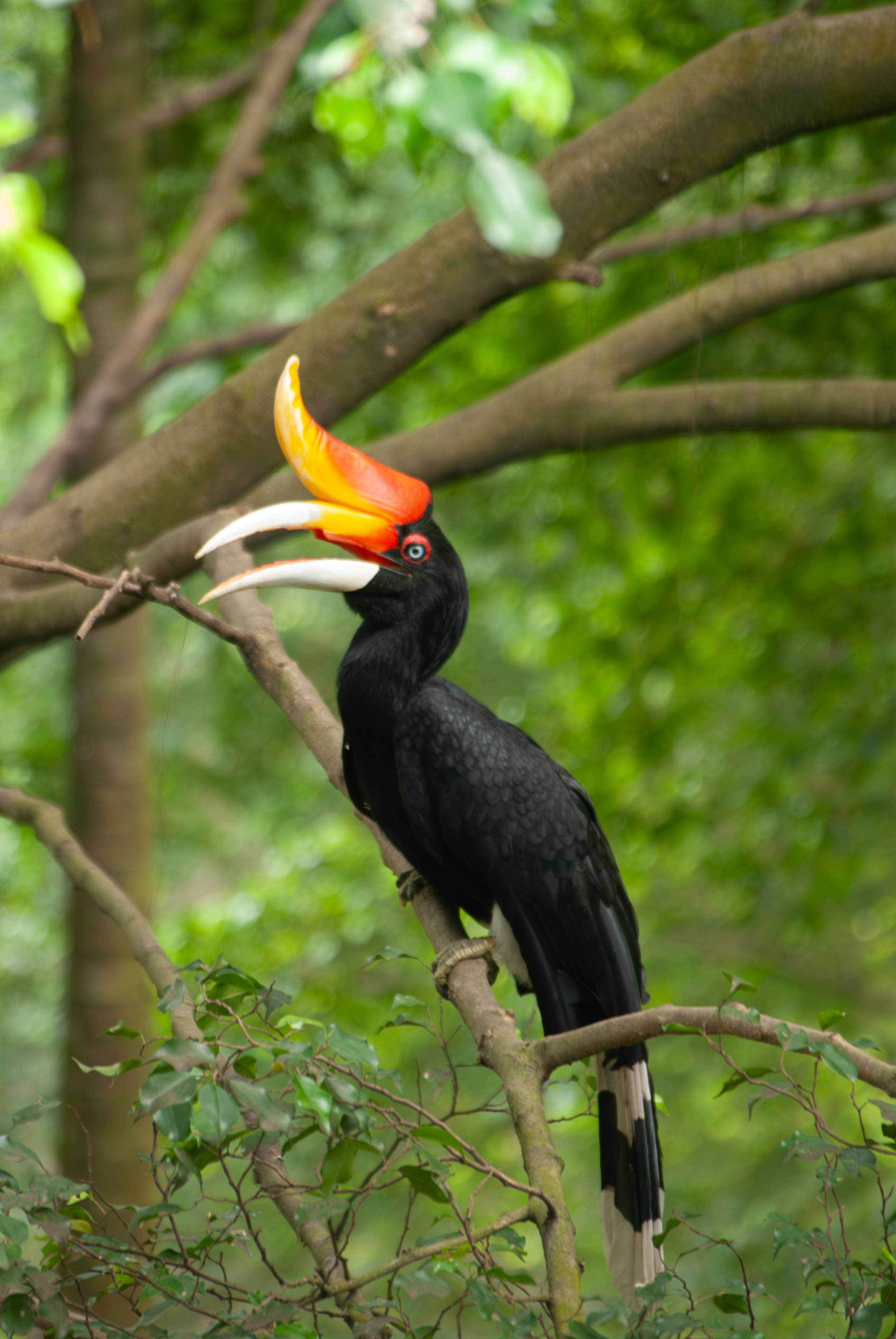 Hornbill